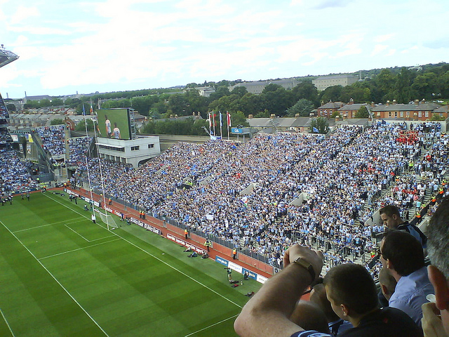 Hill 16 almost full before Dublin v Cork, All Ireland Semi-Final, 2010, in Croke Park.